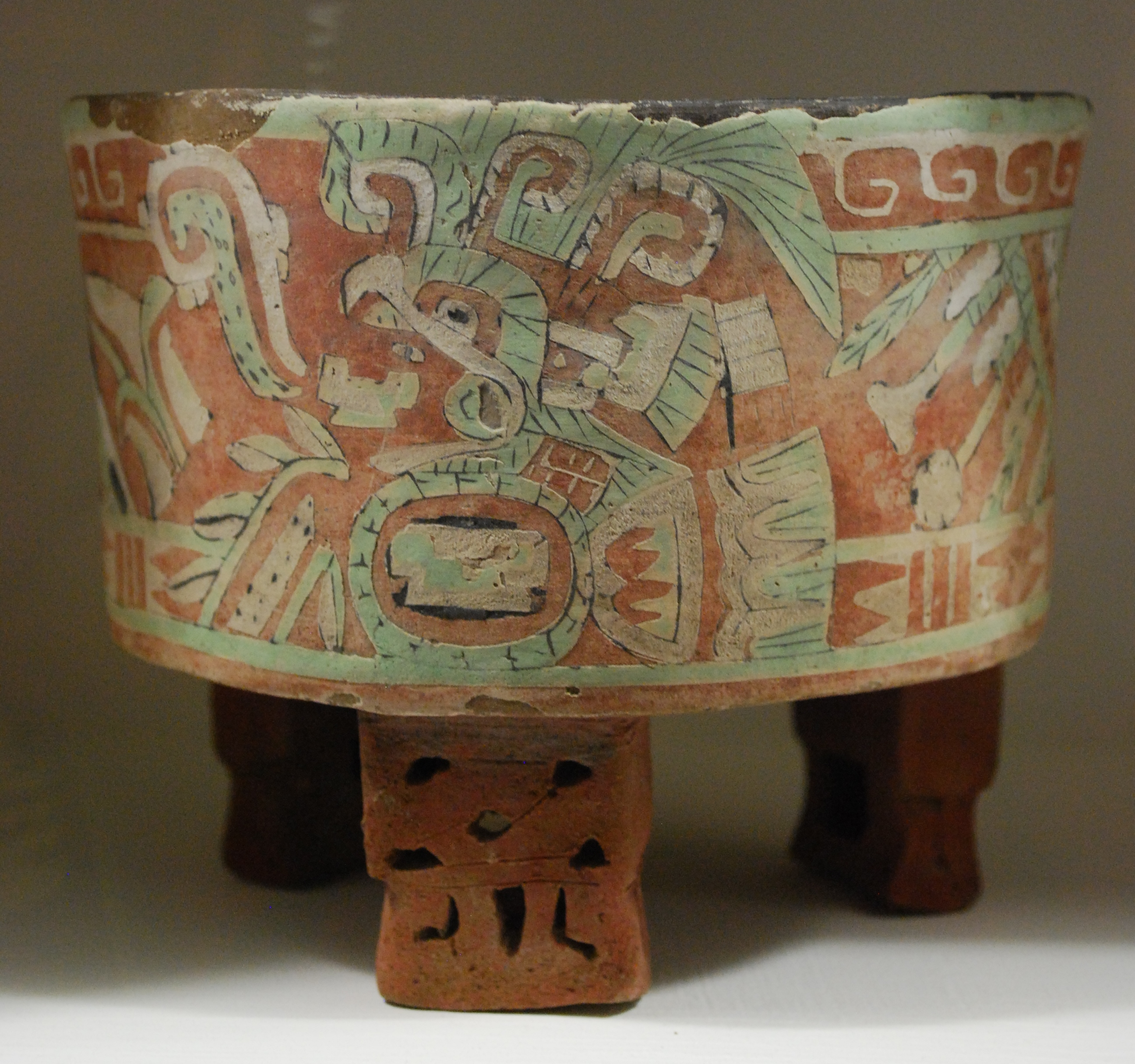 Closeup of a colored ceramics piece in the Anahuacalli Museum in Mexico City